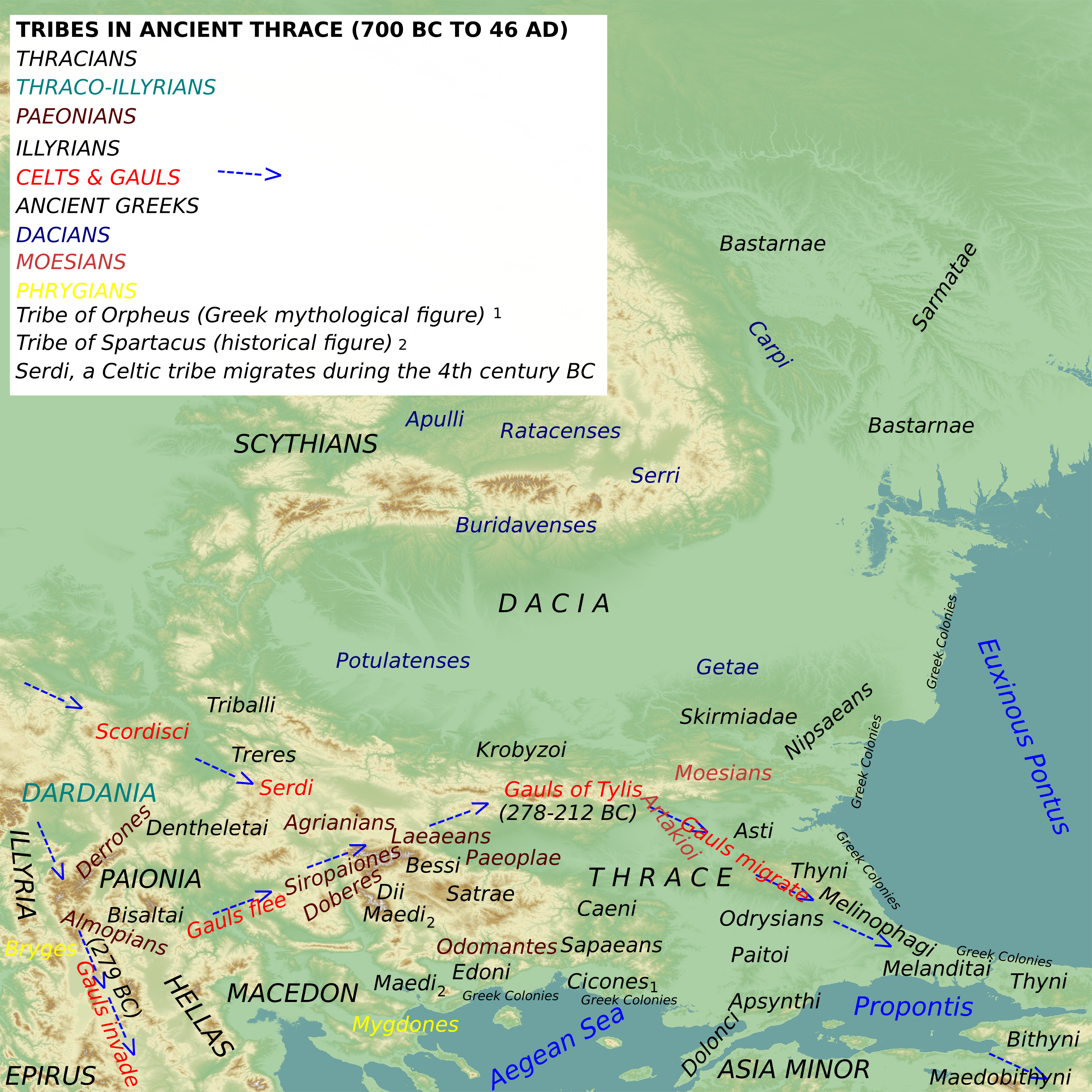 Map of Tribes inhabiting Thrace and Environs, Tribes in Thrace pre-Roman conquest. Includes migrations of Celts and Gauls.